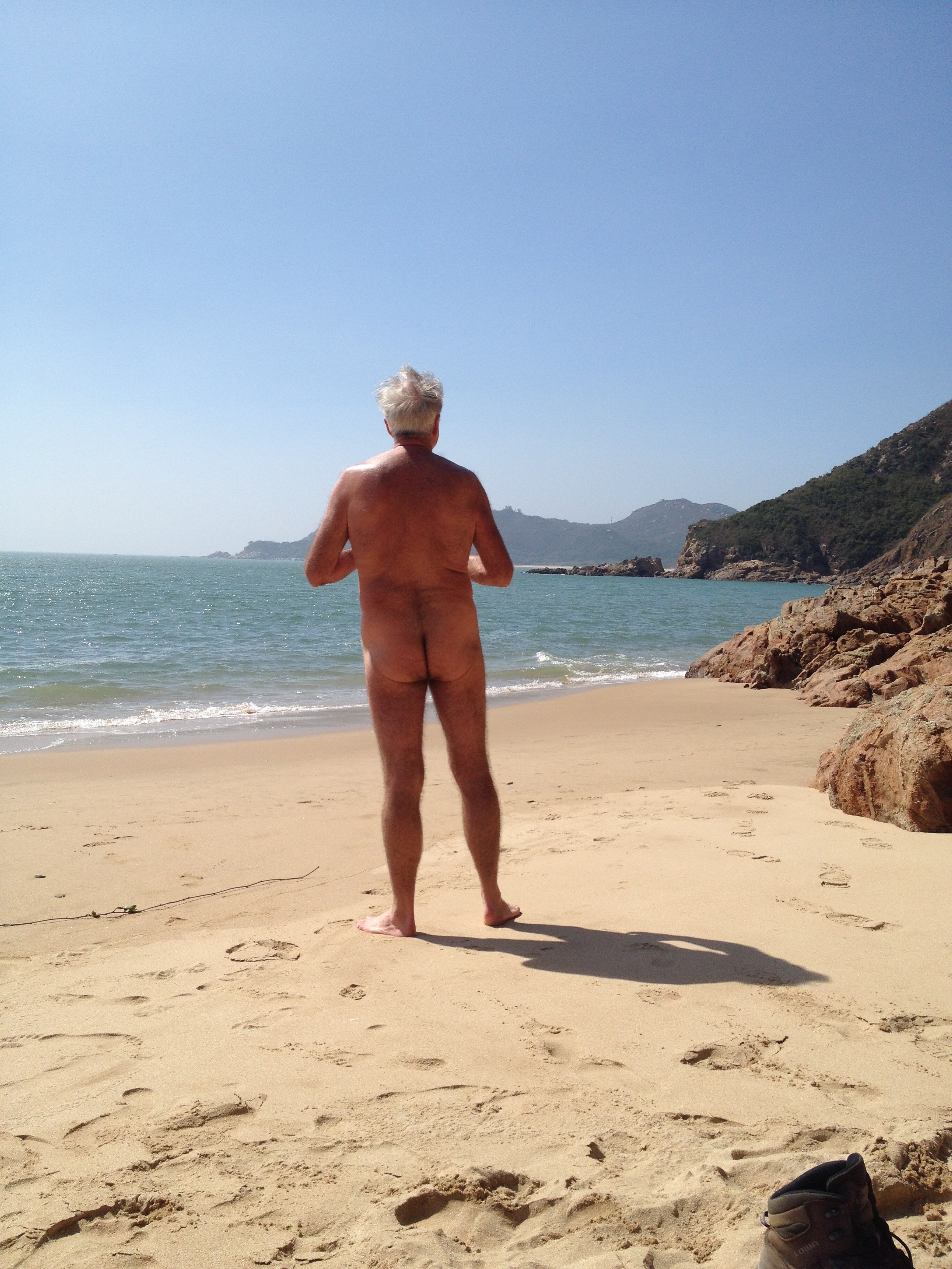 Kau Ling Chung beach looking southwest